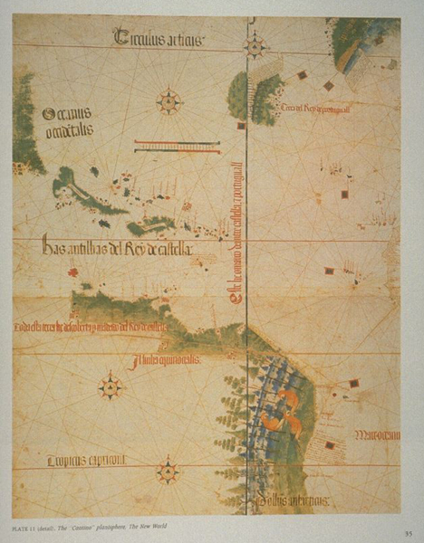 Detail of the Cantino planisphere, showing the Americas